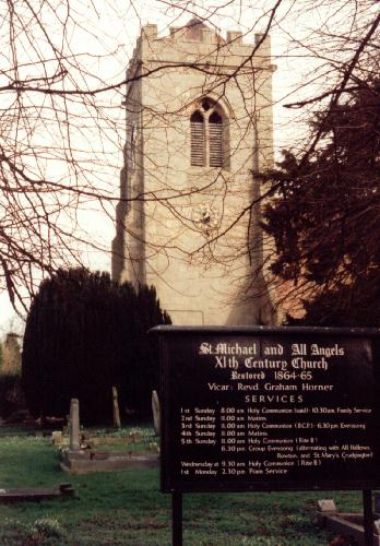 High Ercall Parish Church. Historic church of St Michael and All Angels.